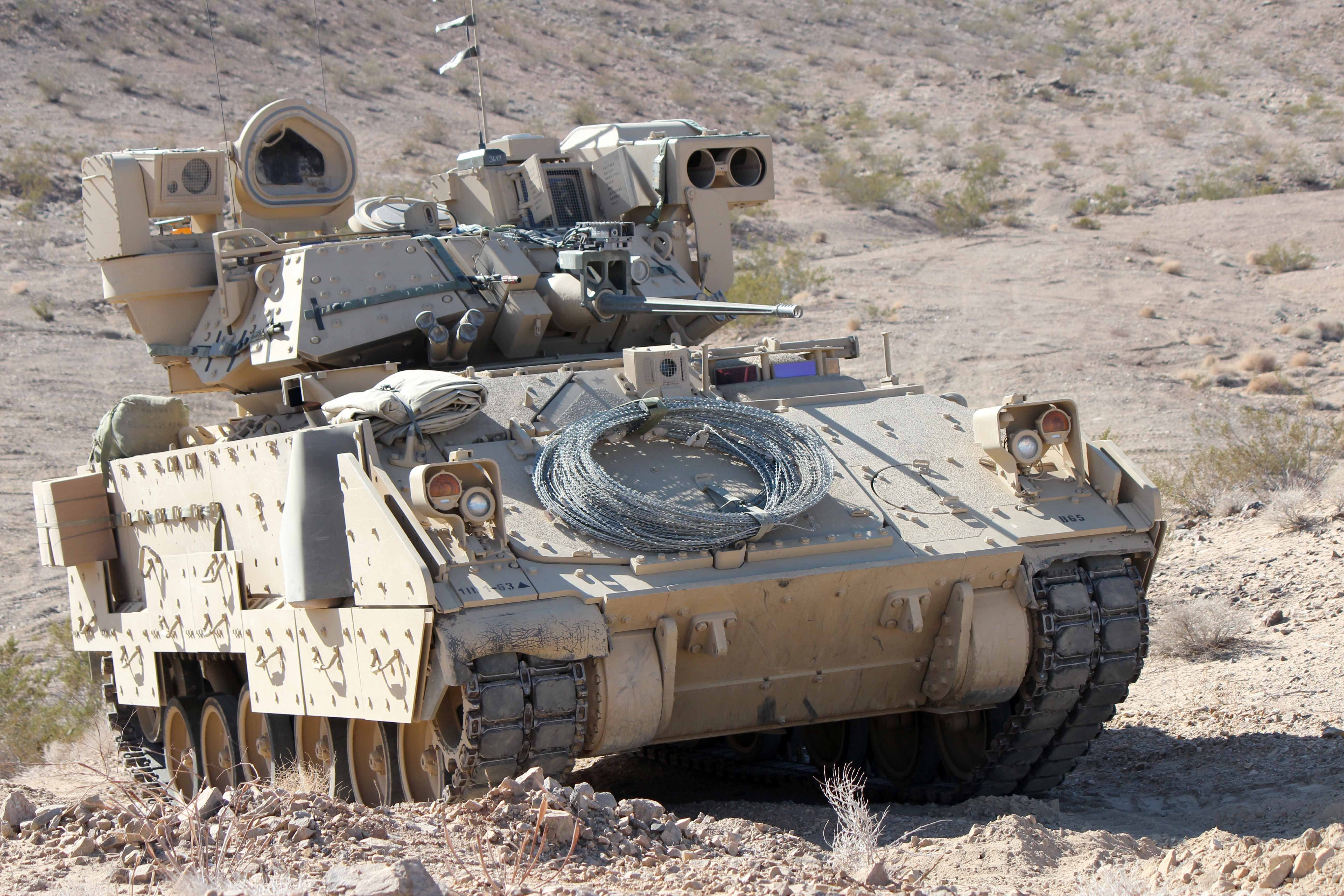 An M2 Bradley Fighting Vehicle is on display during a training exercise at the National Training Center in Fort Irwin, Calif., Feb. 18, 2013. The live, virtual and constructive training environment of the National Training Center is designed to produce adaptive leaders and agile forces for the current fight, which are responsive to the unforeseen contingencies of the 21st century. (U.S. Army photo by Sgt. Eric M. Garland II/Released)